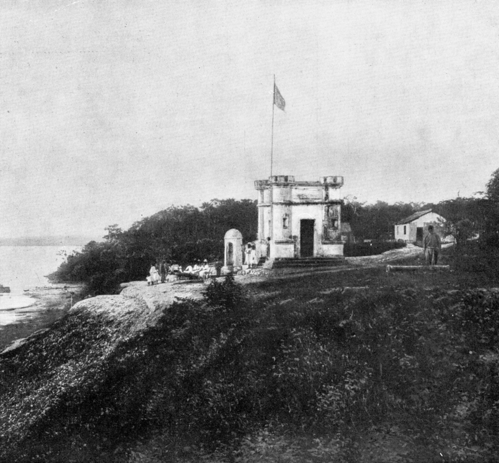 Frontier between Peru and Brazil at Tabatinga